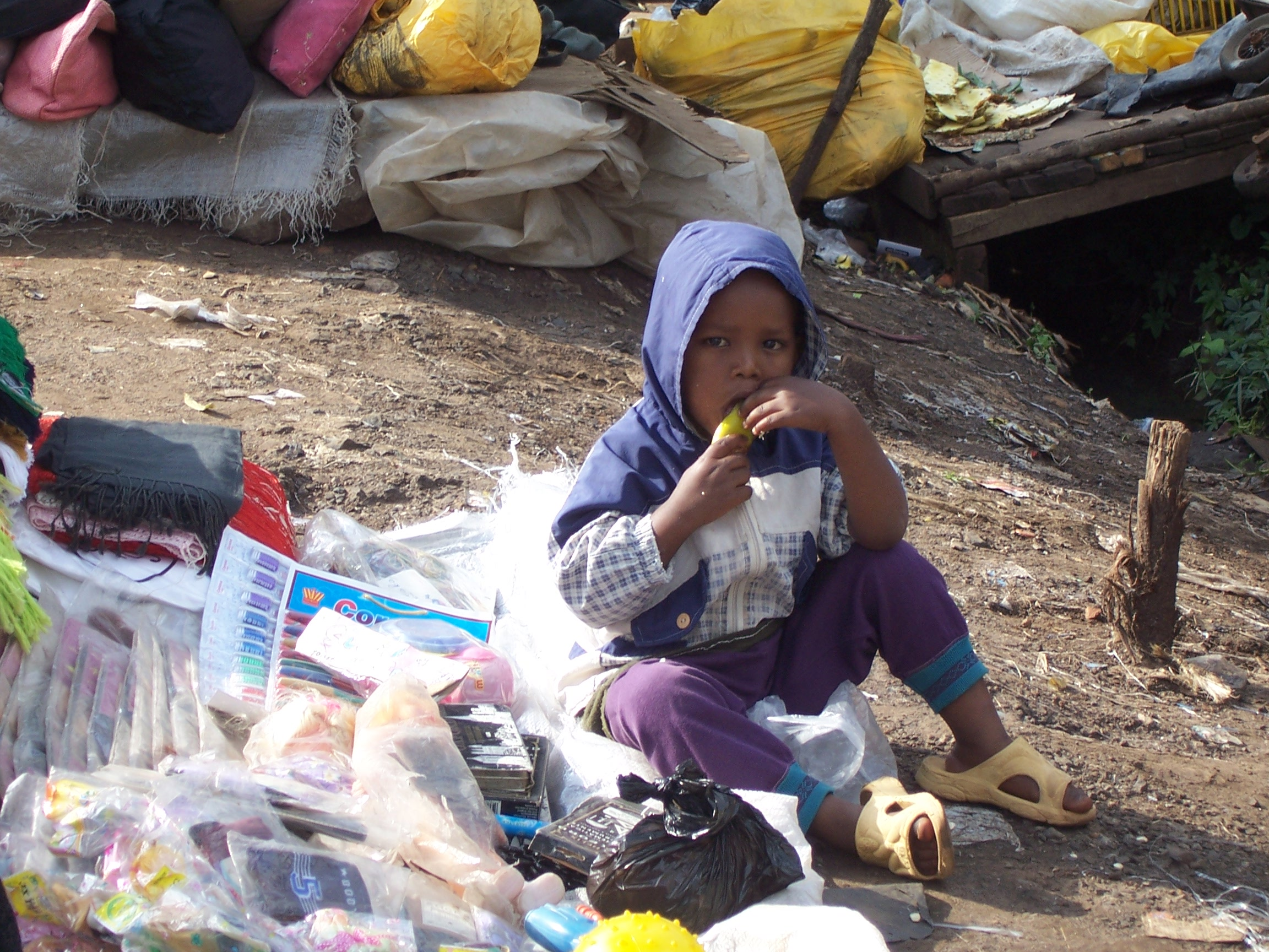 The homeless child lives in a garbage station in Kenya.